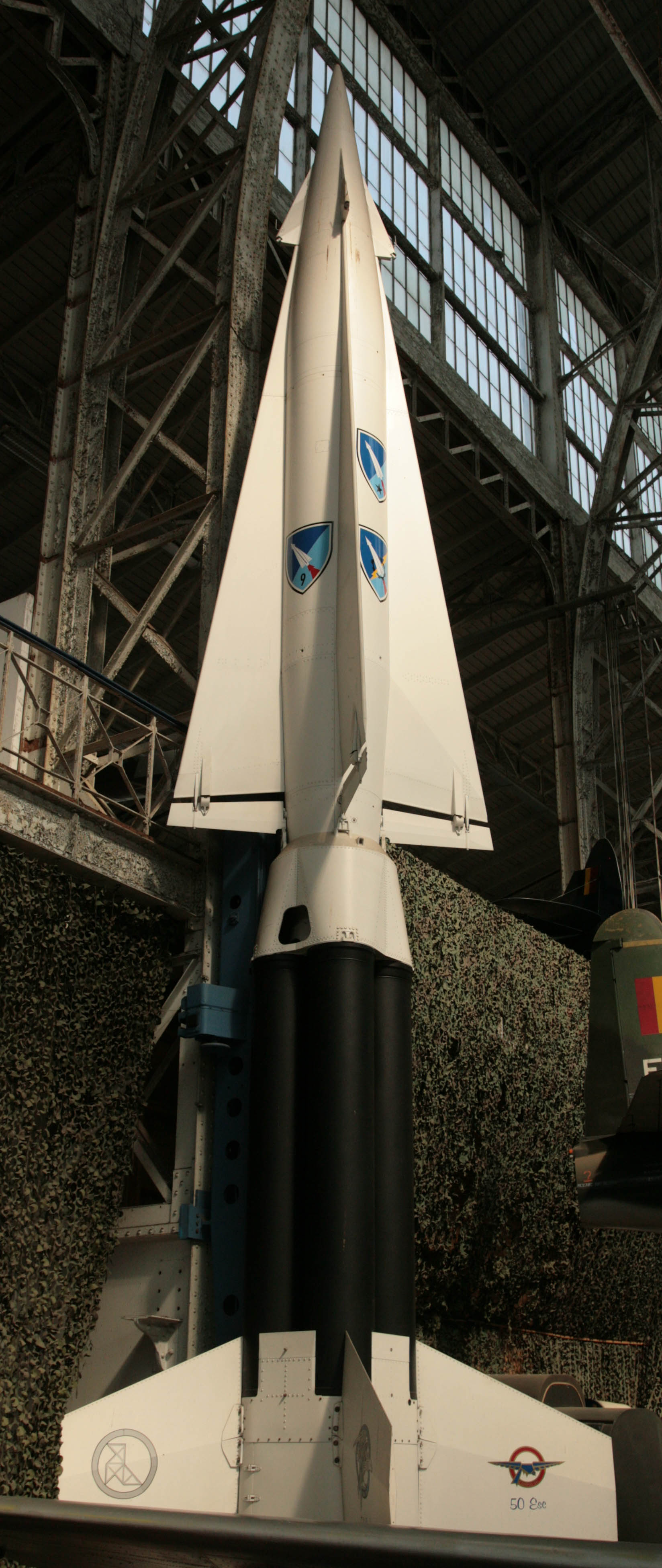 A Nike Hercules missile at the Army Museum in Brussels. Photo by (myself) Max Smith - released in the PD. A photo credit would be nice.